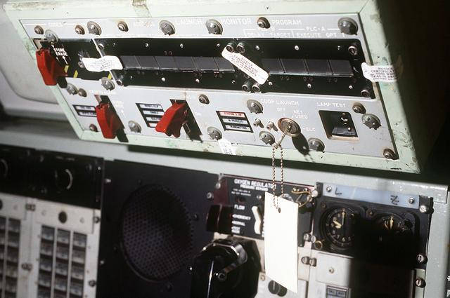 Inside the EC-135 Airborne Launch Control System